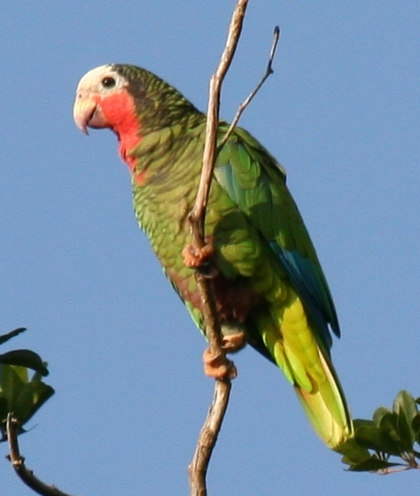 Cuban Parrot perching in a tree in Cuba.